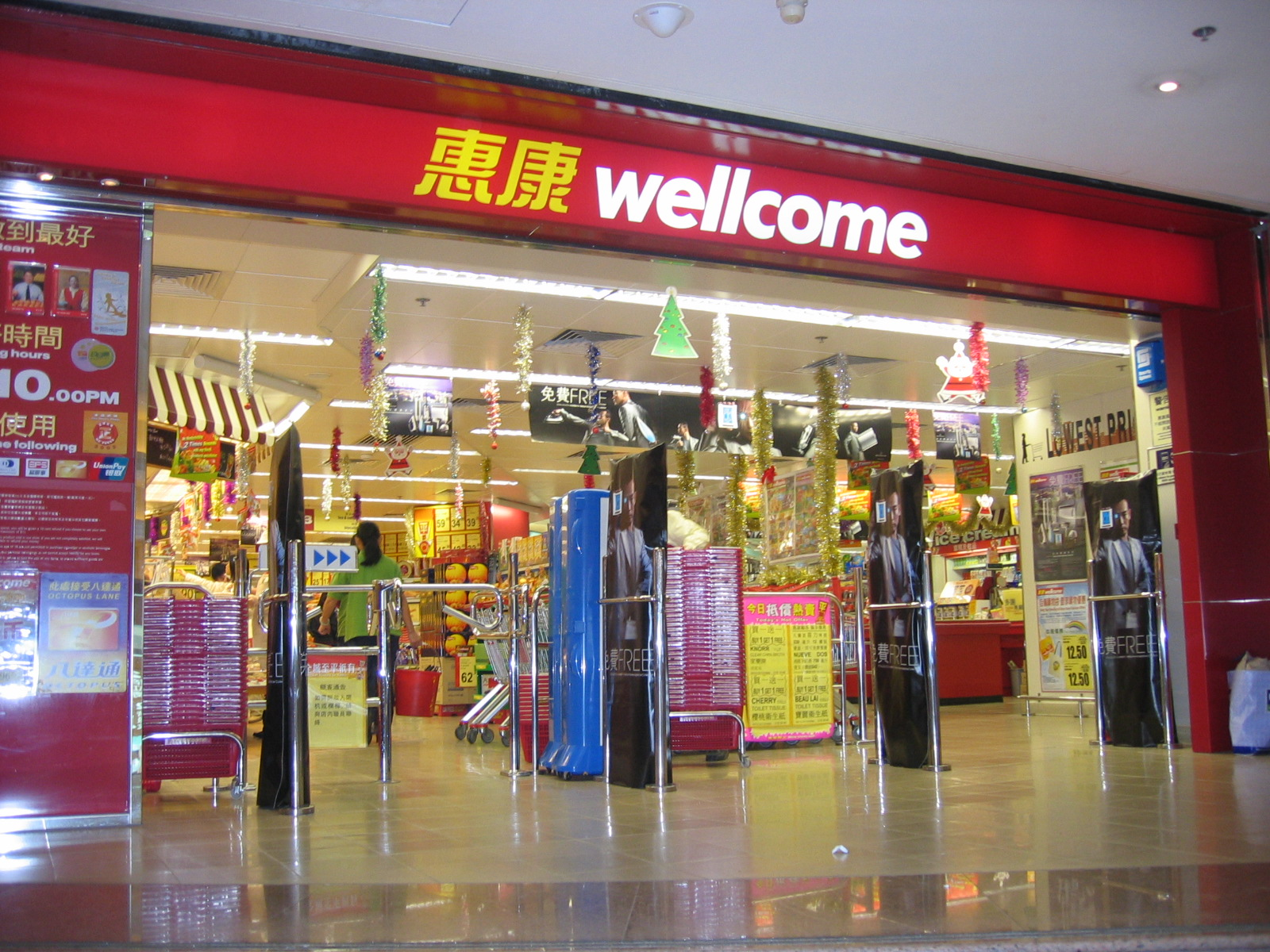 A Wellcome supermarket at The Gateway, Tsim Sha Tsui, Hong Kong.